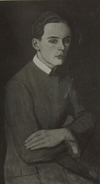 Portrait of Klaus Mann by Olga Markowa Meerson (1926)